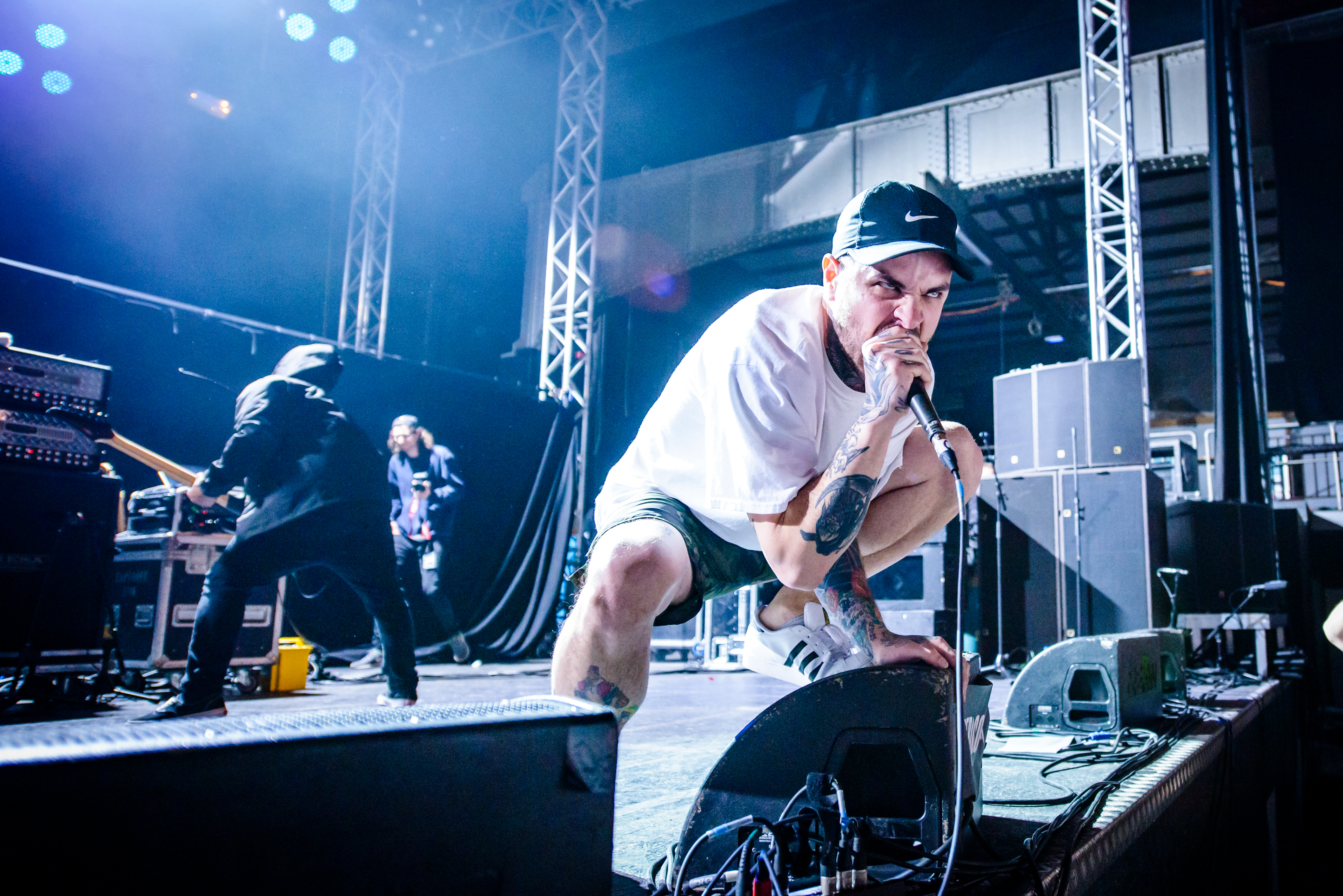 Emmure; Impericon Festival 2016 - Oberhausen